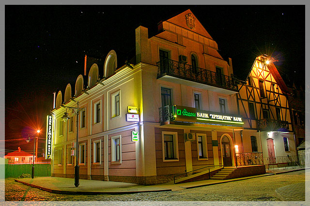 Cathedral street in Lutsk